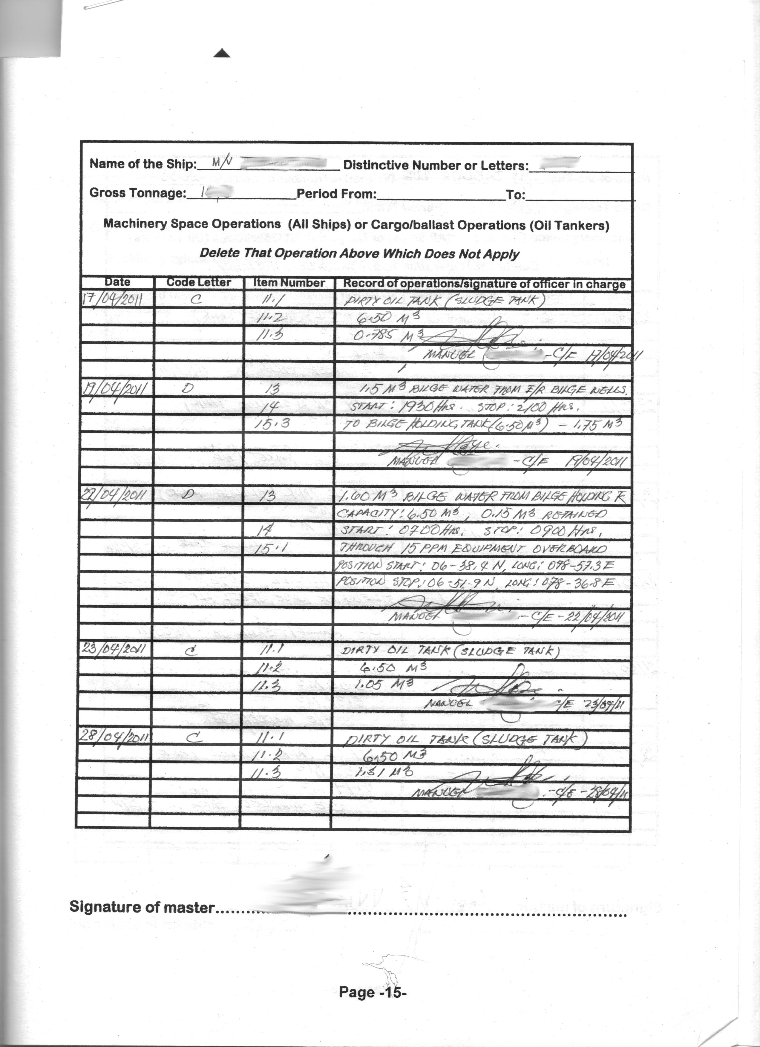 Scan of page of Oil Record Book. Oil Record Book is log-book requested under MARPOL 73/78 Convention on ships.